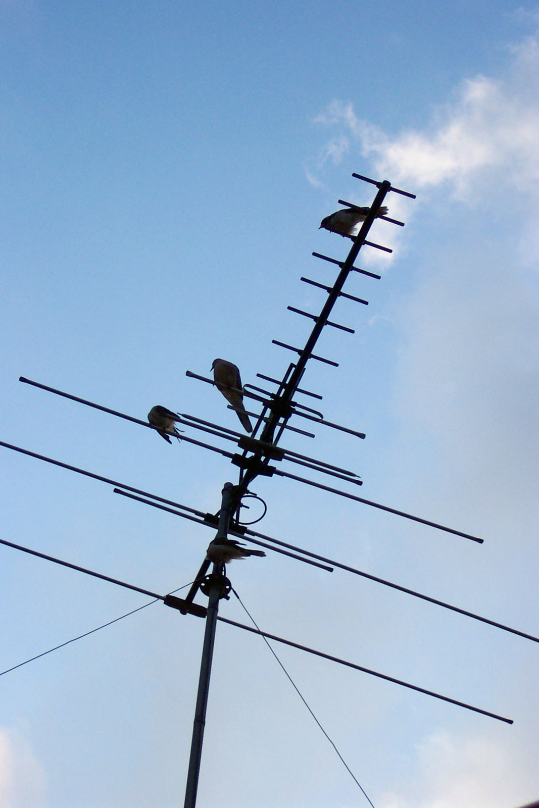 Television antenna